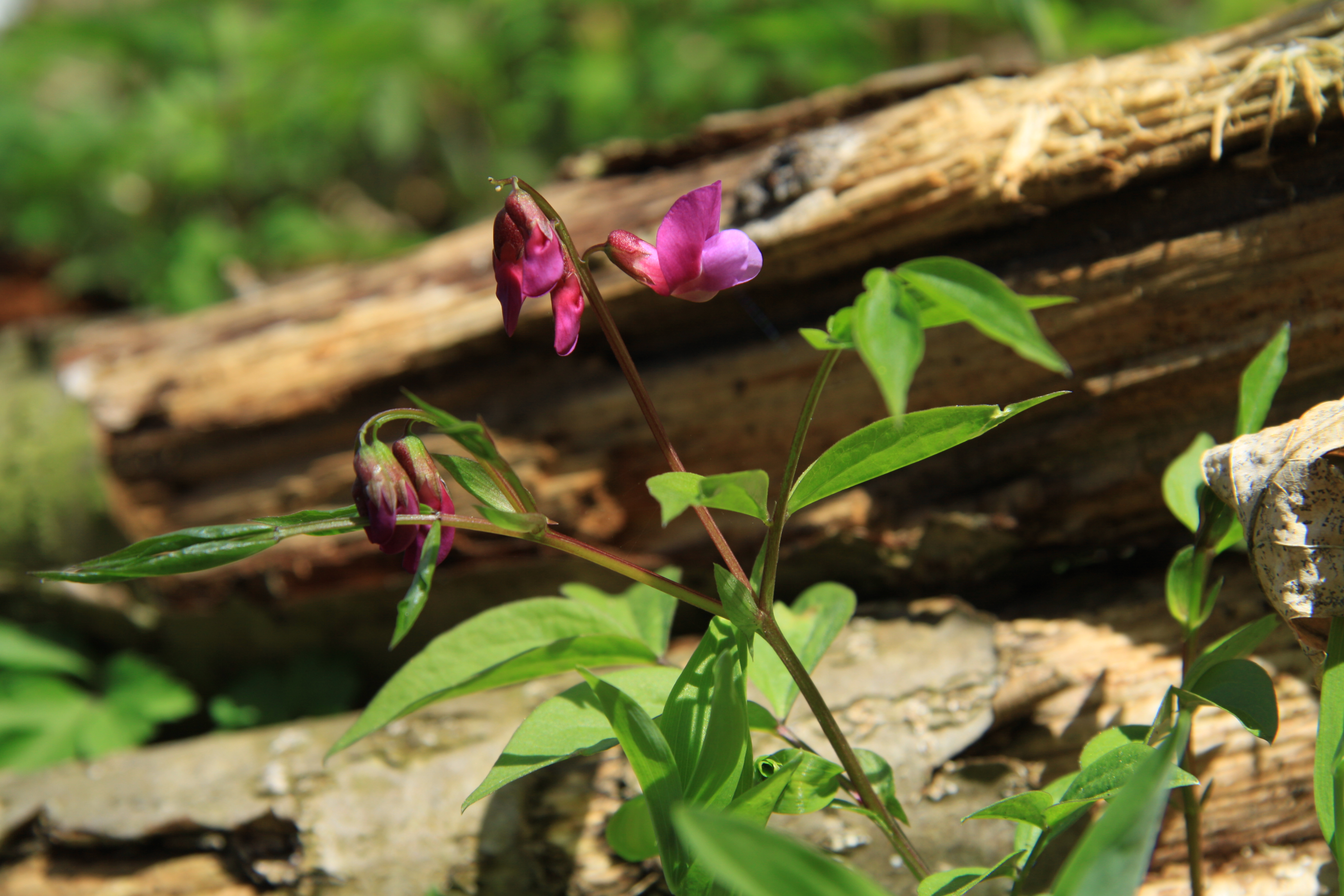 Lathyrus vernus. National nature reserve Vyšenské kopce in Český Krumlov District, Czech Republic Project: Chráněná území